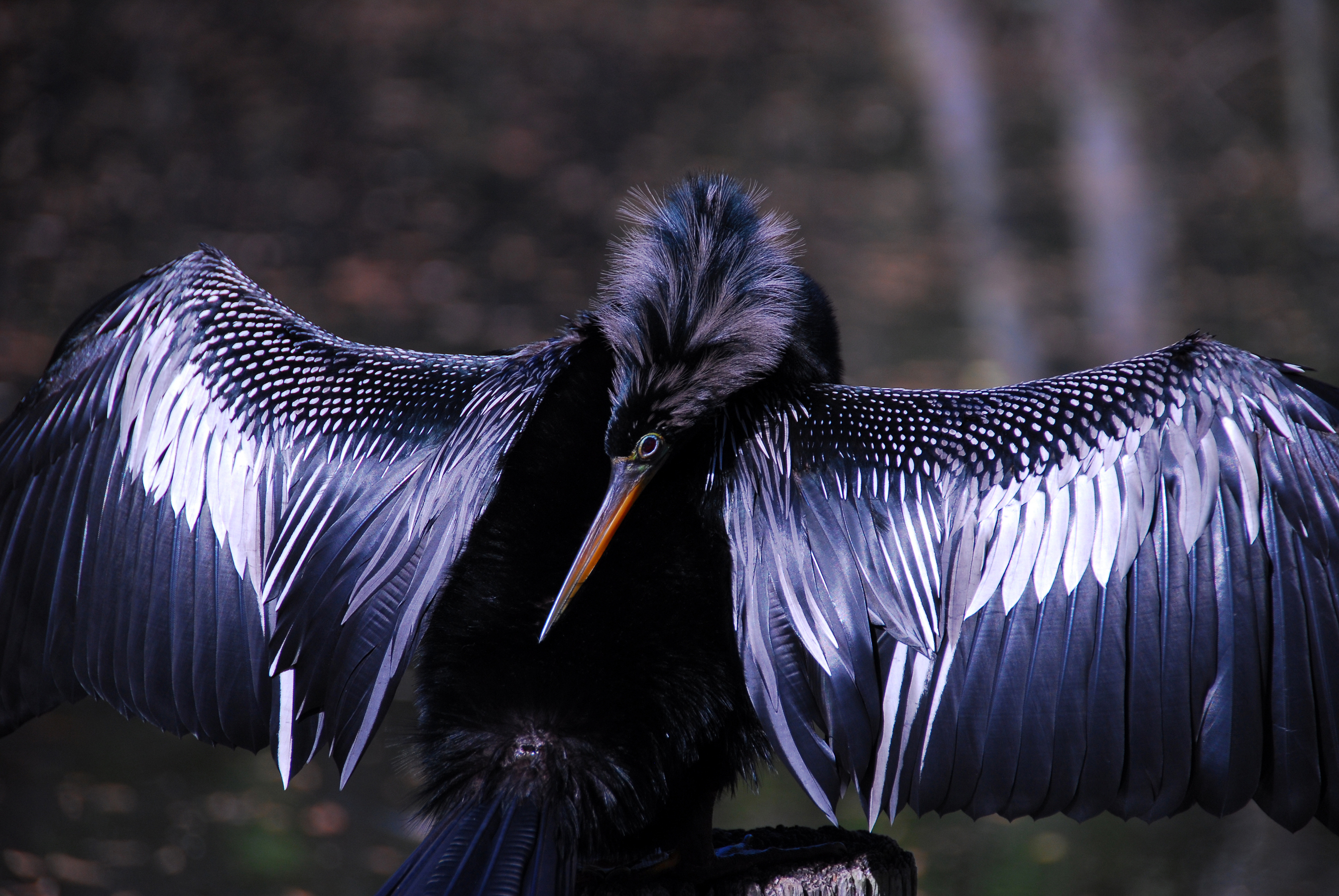 Photo by Matt Edmonds. Anhinga drying its' feathers at Sawgrass Park in St. Petersburg, FL 2007.